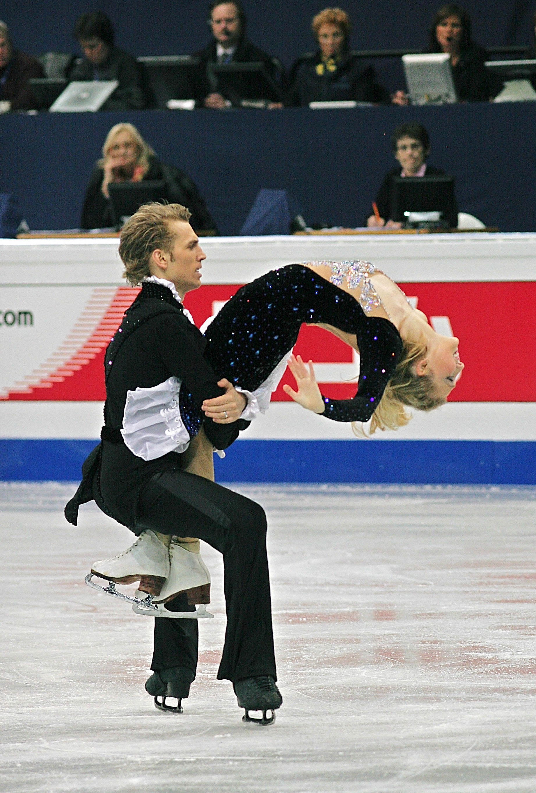 Katherine Copely and Deividas Stagniunas (LTU) at the free dance of World Championships 2008 in Gothenburg.